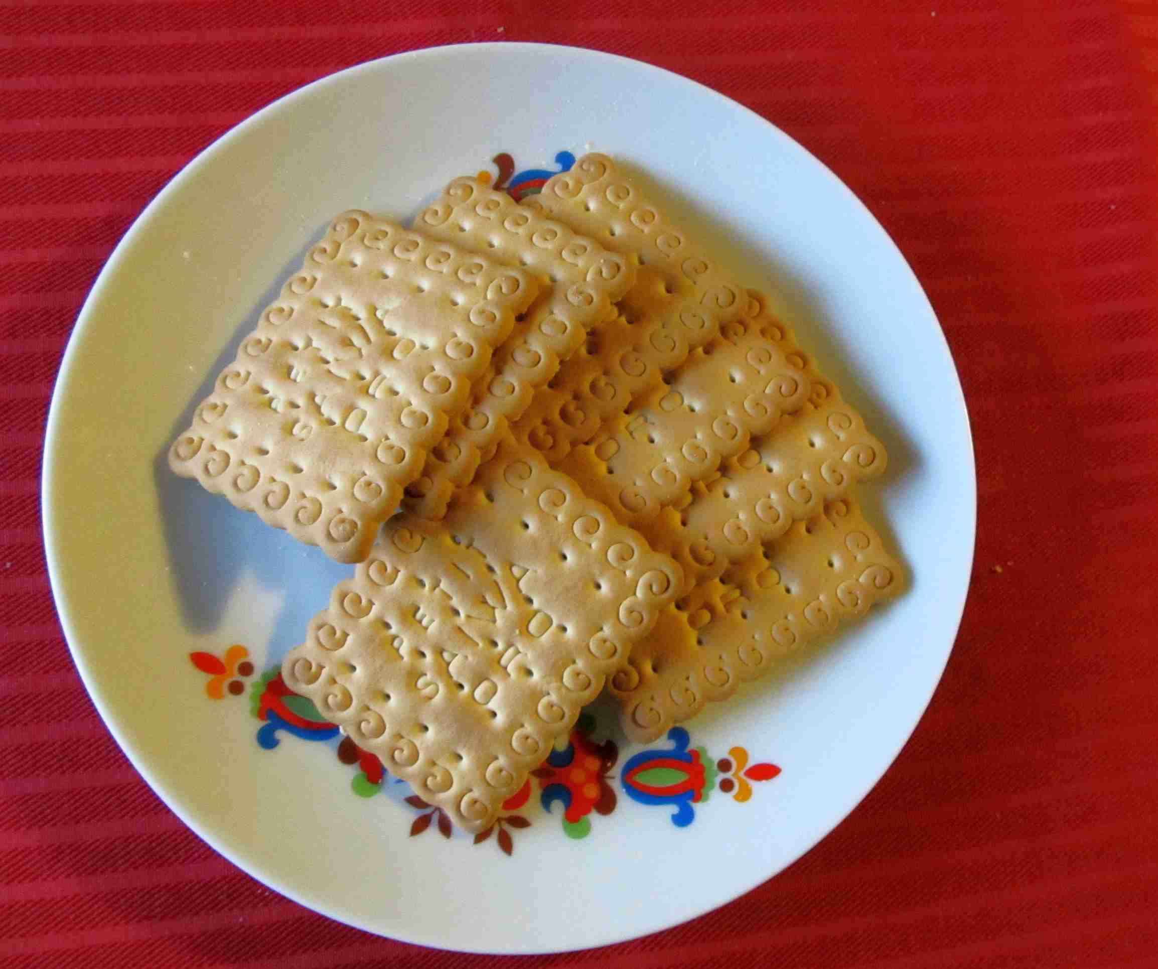 Oro Saiwa bisquits